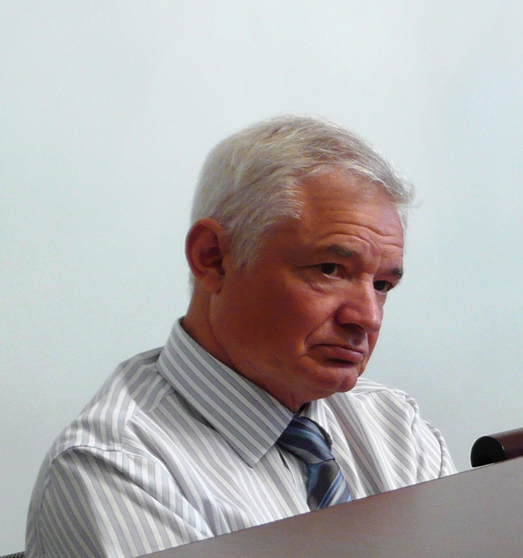 British church historian Hugh McLeod (born 1944) attending CIHEC annual conference in the University of Tartu.